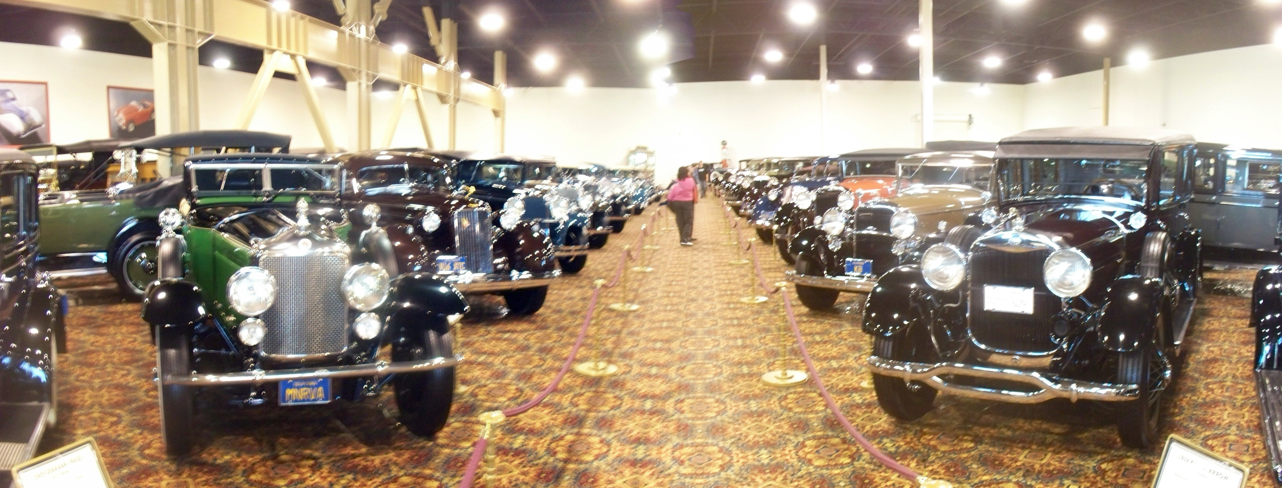 Nethercutt Collection Museum Floor. Across from collection. Part of Merle Norman Cosmetics